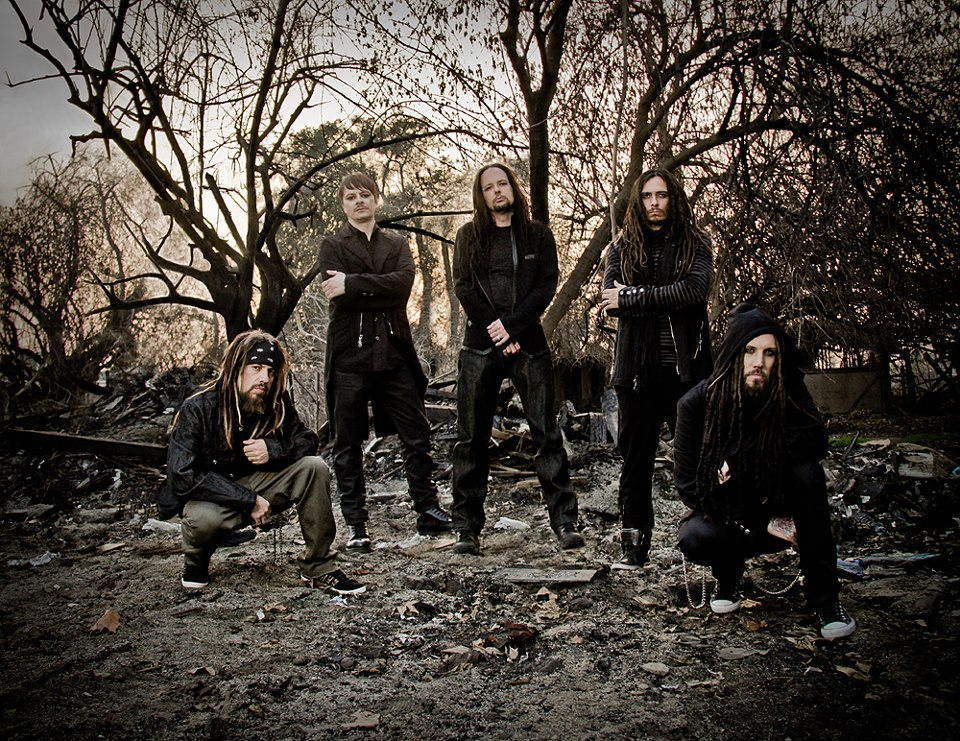 Korn, Feb 2013